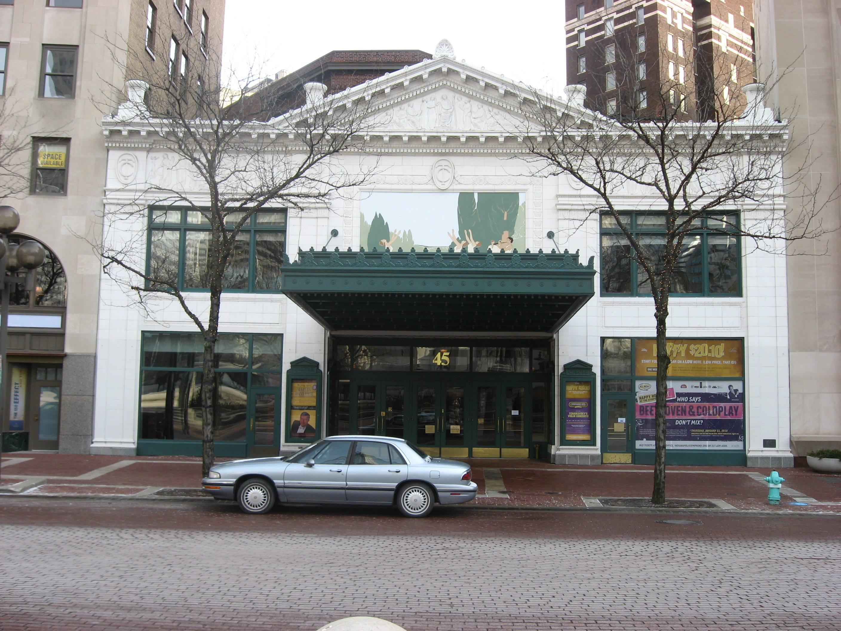 Front of the Circle Theater, located at 45 Monument Circle in downtown Indianapolis, Indiana, United States. Built in 1916, it is listed on the National Register of Historic Places, and it is a part of the Register-listed Washington Street-Monument Circle Historic District.